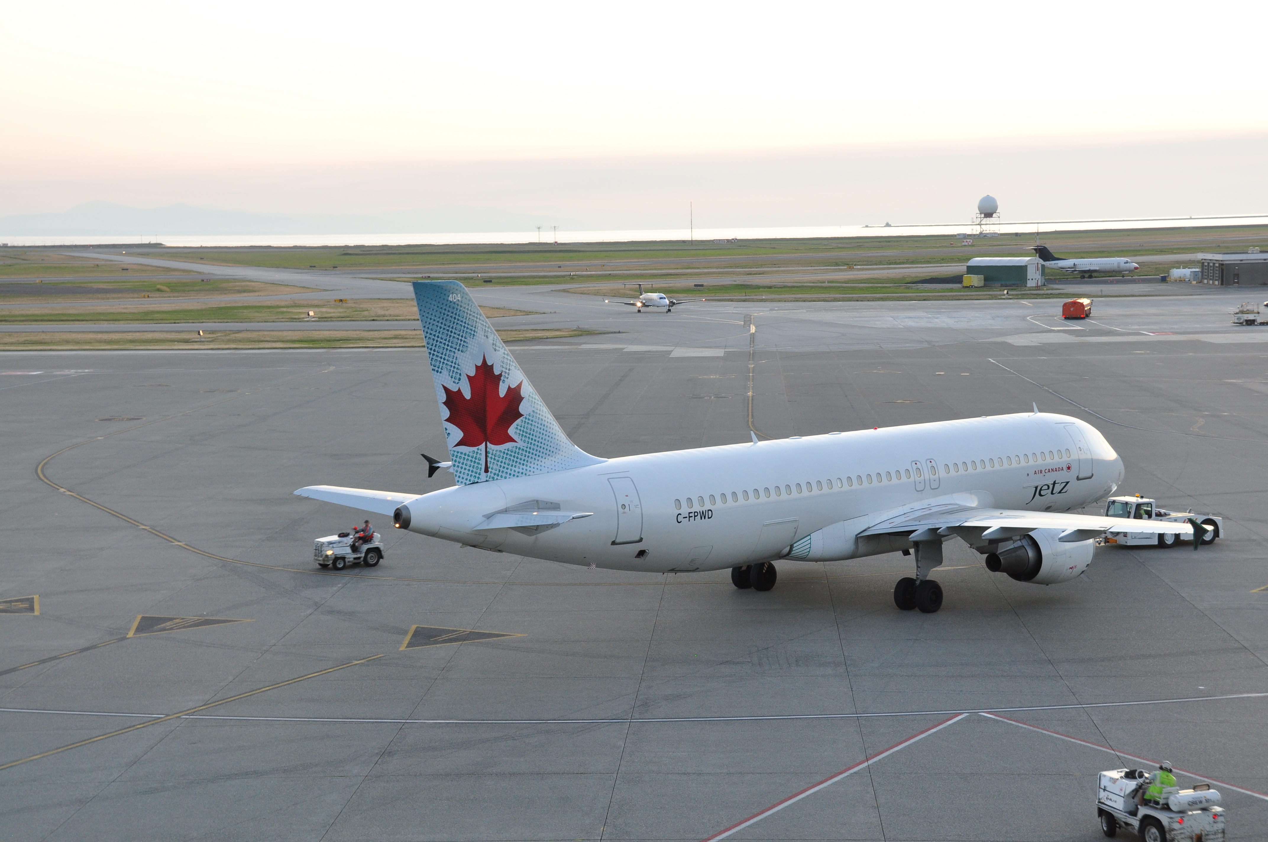 Airbus - A320 C-FPWD Air Canada Jetz in Vancouver International Airport, BC, CA.